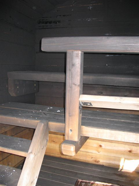 Bench in a Smoke Sauna